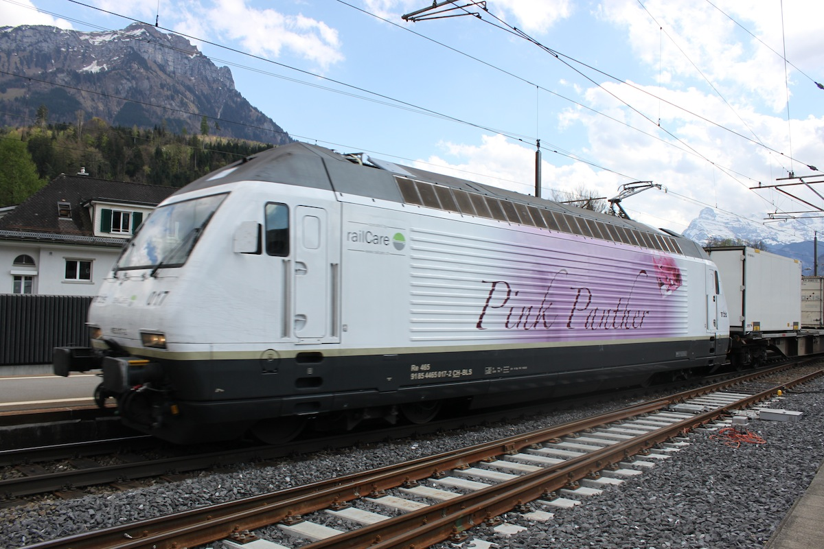 railCare Re 465 017 "Pink Panther" passing Brunnen